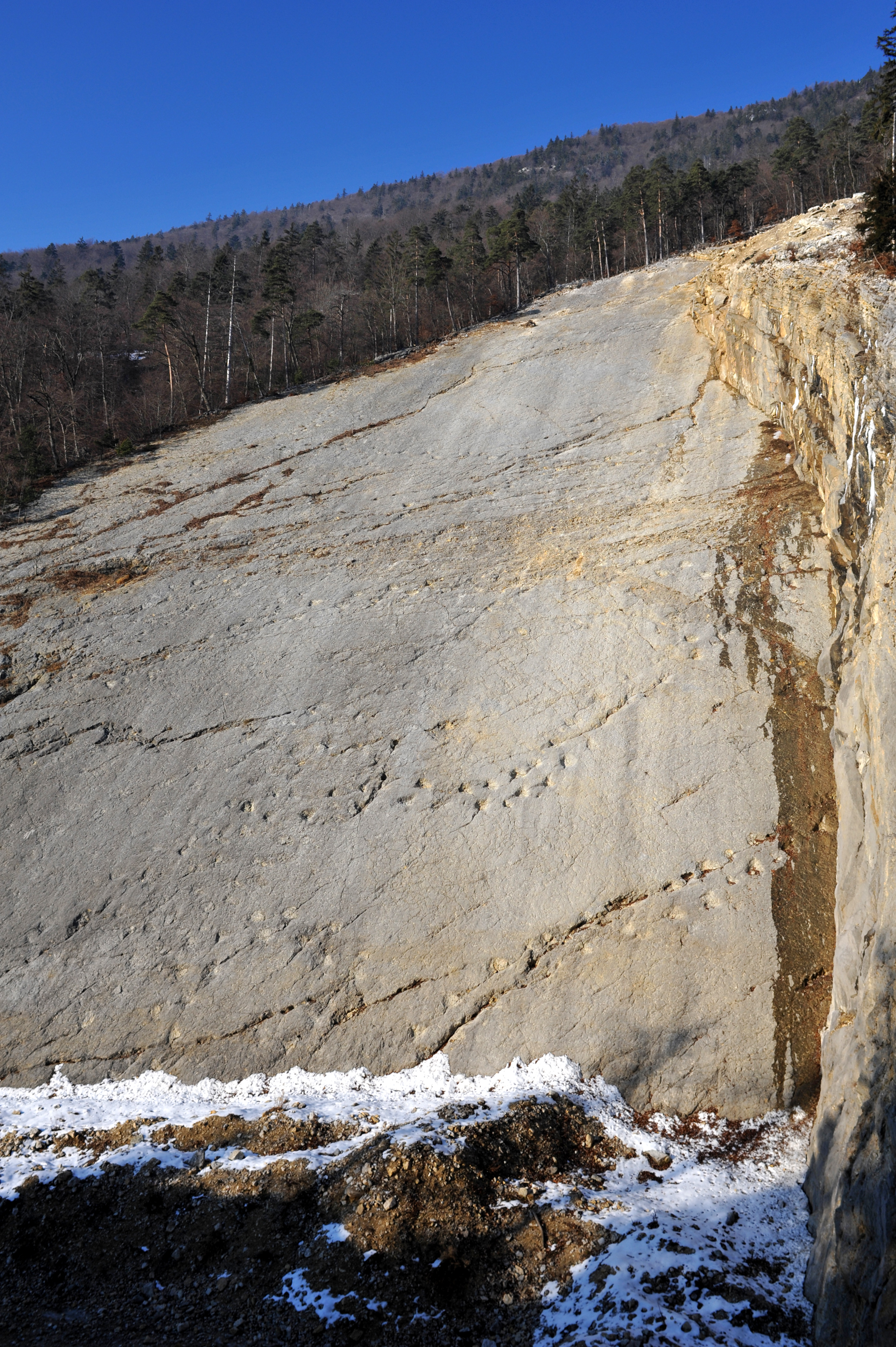 Brachiosaur tracks in a stone quarry; Oberdorf/Lommiswil, Solothurn, Switzerland.